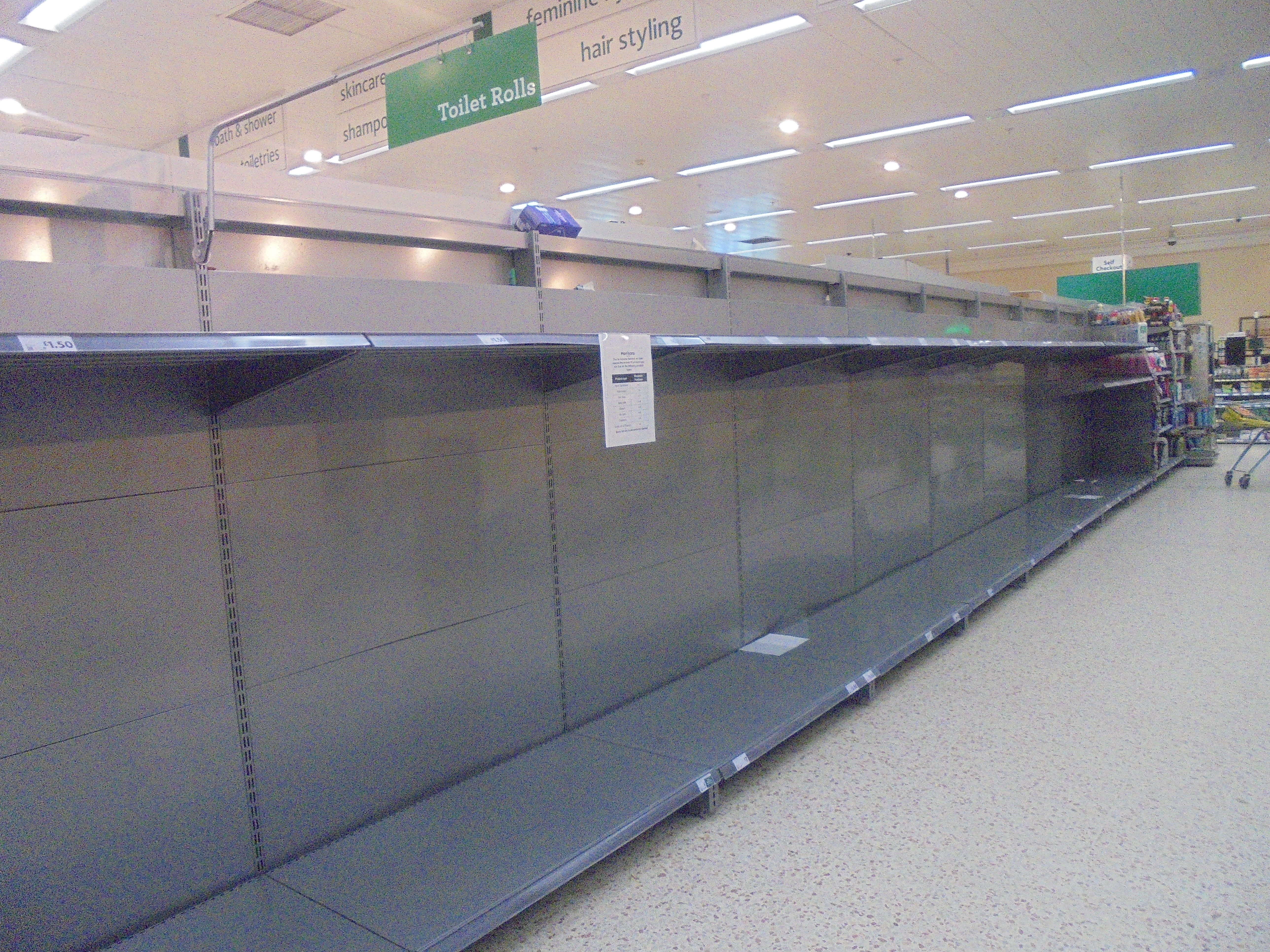 Depleted lavatory rolls during the 2020 Coronavirus outbreak, Morrisons, Wetherby, West Yorkshire. Taken on the afternoon of Friday the 20th of March 2020.